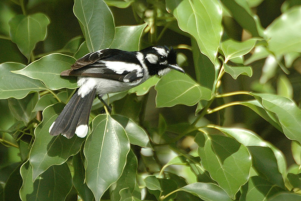 White-eared Monarch (Monarcha leucotis) from Tom Tarrant.